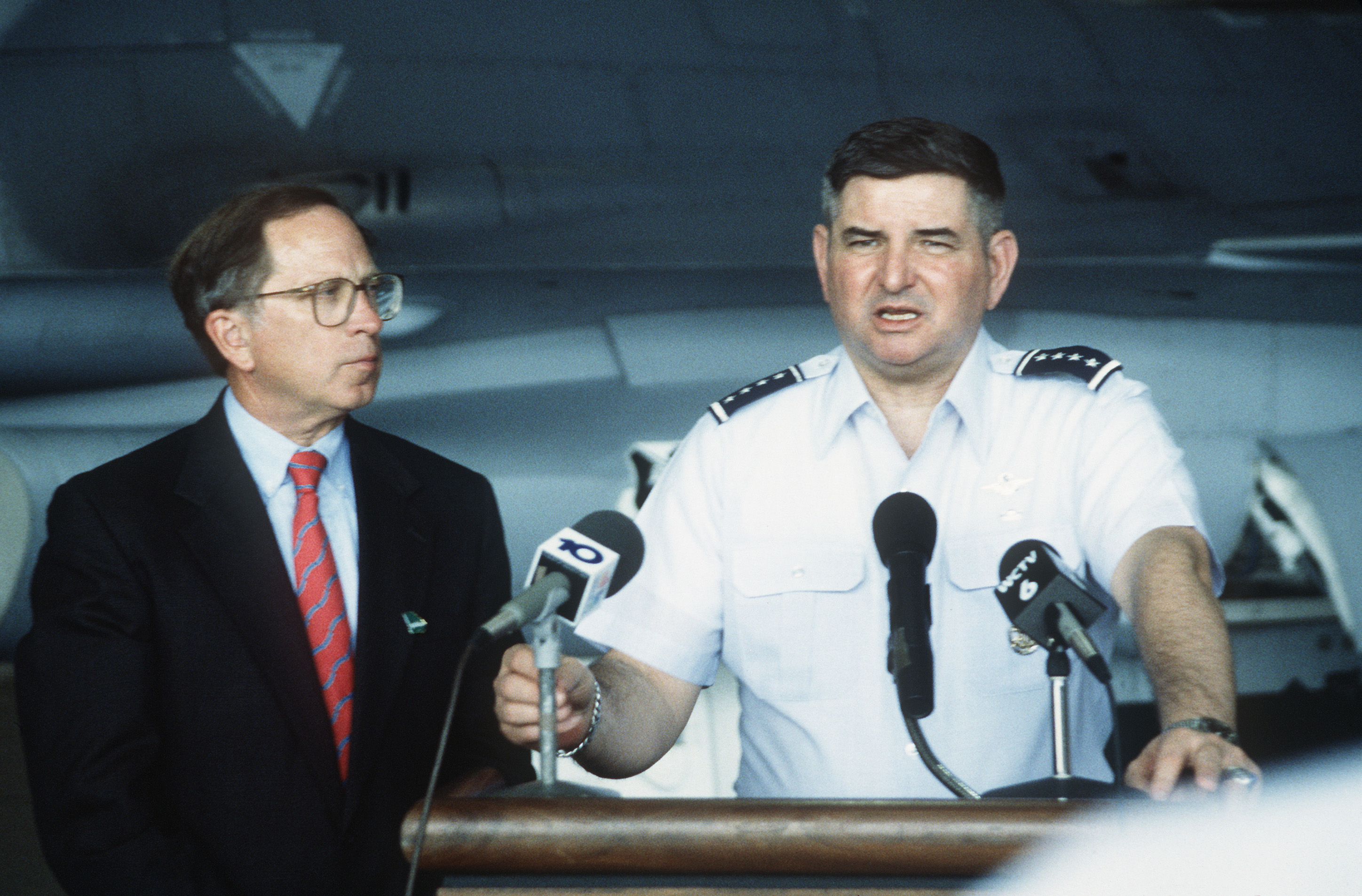 General Ronald Fogelman, Air Force Chief of Staff, addresses the 347th Wing personnel. Senator Sam Nunn is standing next to the general.